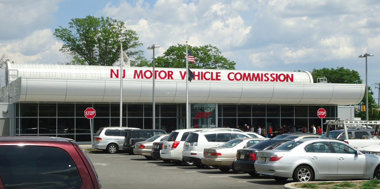 The New Jersey Motor Vehicle Commission in Rahway. People apply or renew their drivers licenses as well as take written and driving tests at this facility; there is a garage to inspect motor vehicles as well.